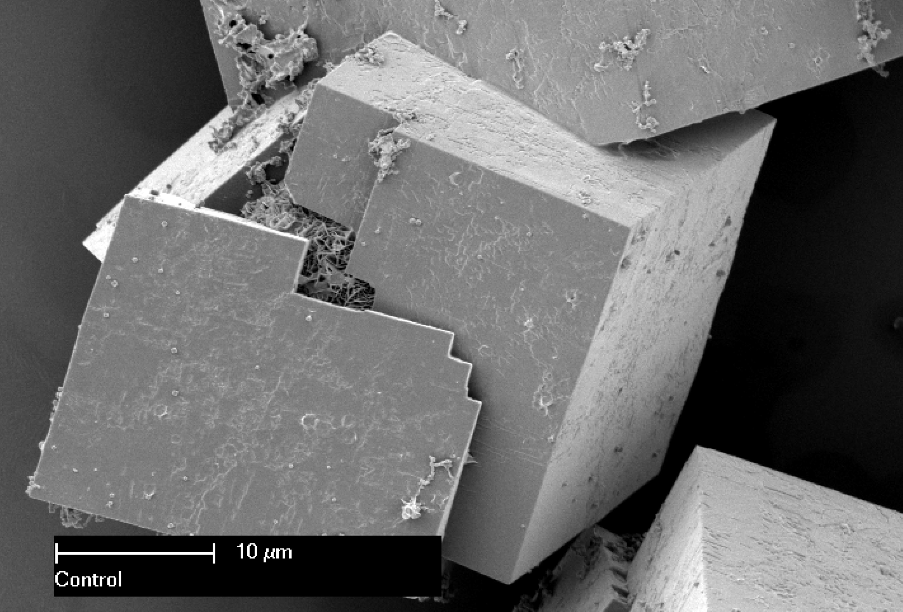 Scientists at CSIRO have developed a simple but effective technique for growing and adding value to an new group of smart materials which could be used in areas such as optical sensing and drug storage and delivery. The researchers have developed a way to control the growth, and provide additional functionality, to a family of smart materials known as metal-organic frameworks, or MOFs. MOFs consist of well-ordered ultra-porous crystals which form multi-dimensional structures with enormous surface areas. One gram of the material can have the surface area of more than three football fields. Their spacious pores provide MOFs with the potential to be used as 'sponges' for storing gases such as hydrogen, carbon dioxide or natural gas. They could also be used as nano-sized sieves to purify gases or liquids, for catalysis, or for the targeted transport of drugs in the body.